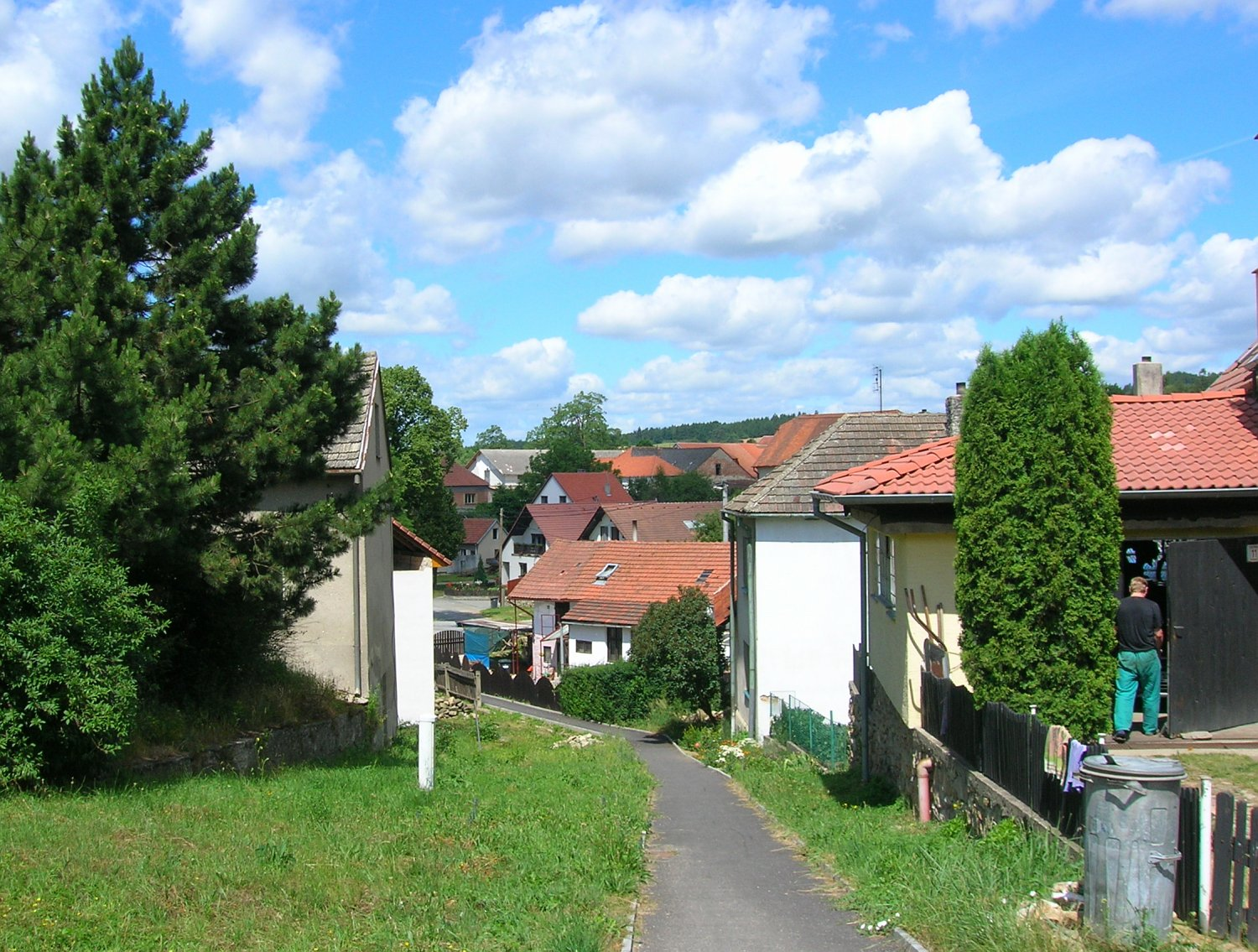 Třebíč Račerovice